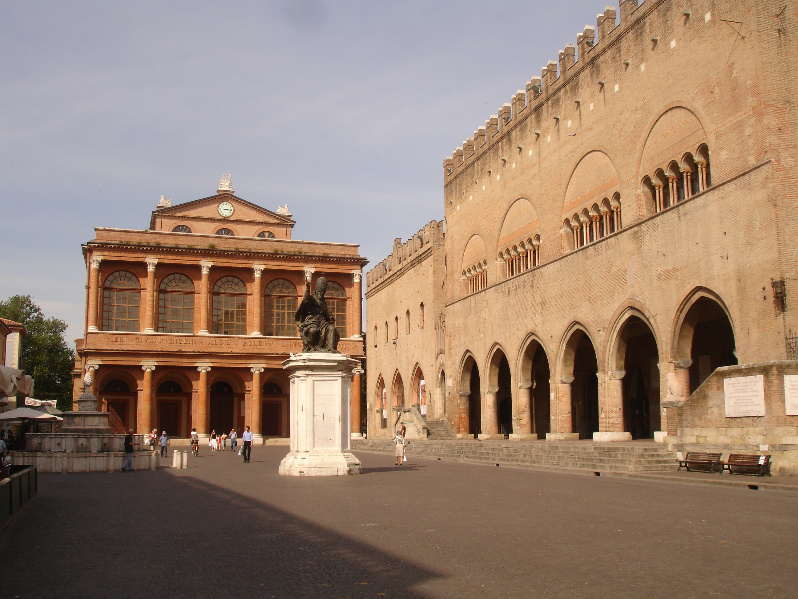 Piazza Cavour, in Rimini. At the back of the square, the theatre designed by Luigi Poletti (the theatre was built from 1843 to 1857[1]). Both the author and the final date are mentioned in the Latin inscription on the pediment: AERE CIVIVM INGENIO ALOISII POLETTI ANNO MDCCCLVII - Aere civium ingenio Aloisii Poletti Anno MDCCCLVII). Bronze statue of pope Paul V (by Nicolò Cordier and Sebastiano Sebastiani, (1611-1613),.